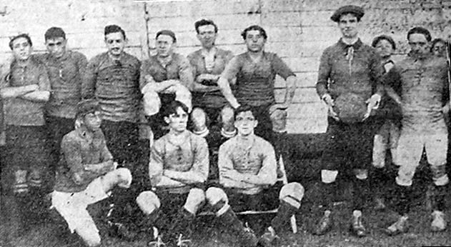 The Boca Juniors team that played the first official Superclásico v. River Plate at Racing Club stadium.